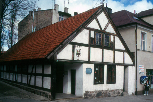 Old Hospital.